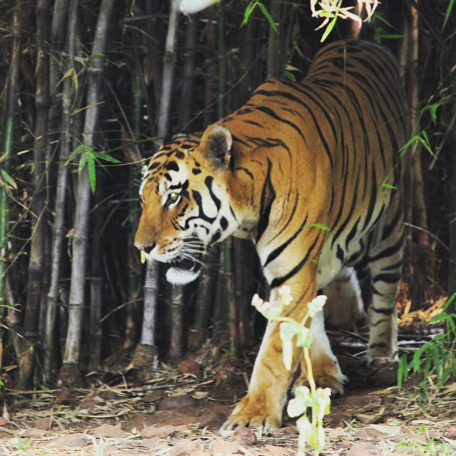 Van vihaar national park bhopal ,madhya pradesh!